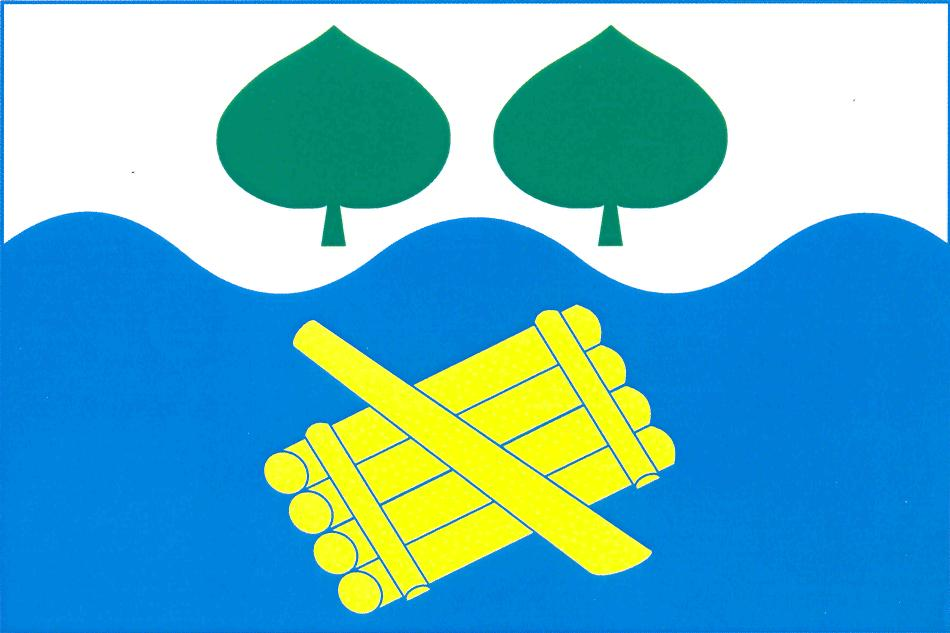 Municipal flag of Lipno nad Vltavou village, Český Krumlov District, Czech Republic.